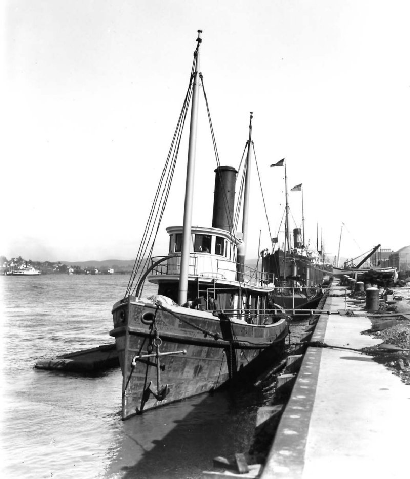 Picture of the harbor tug Pawtucket taken in 1899.